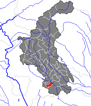 This map shows the area of the Gemeinde (municipality) Labuch in the Bezirk (district) Weiz, Styria, Austria.